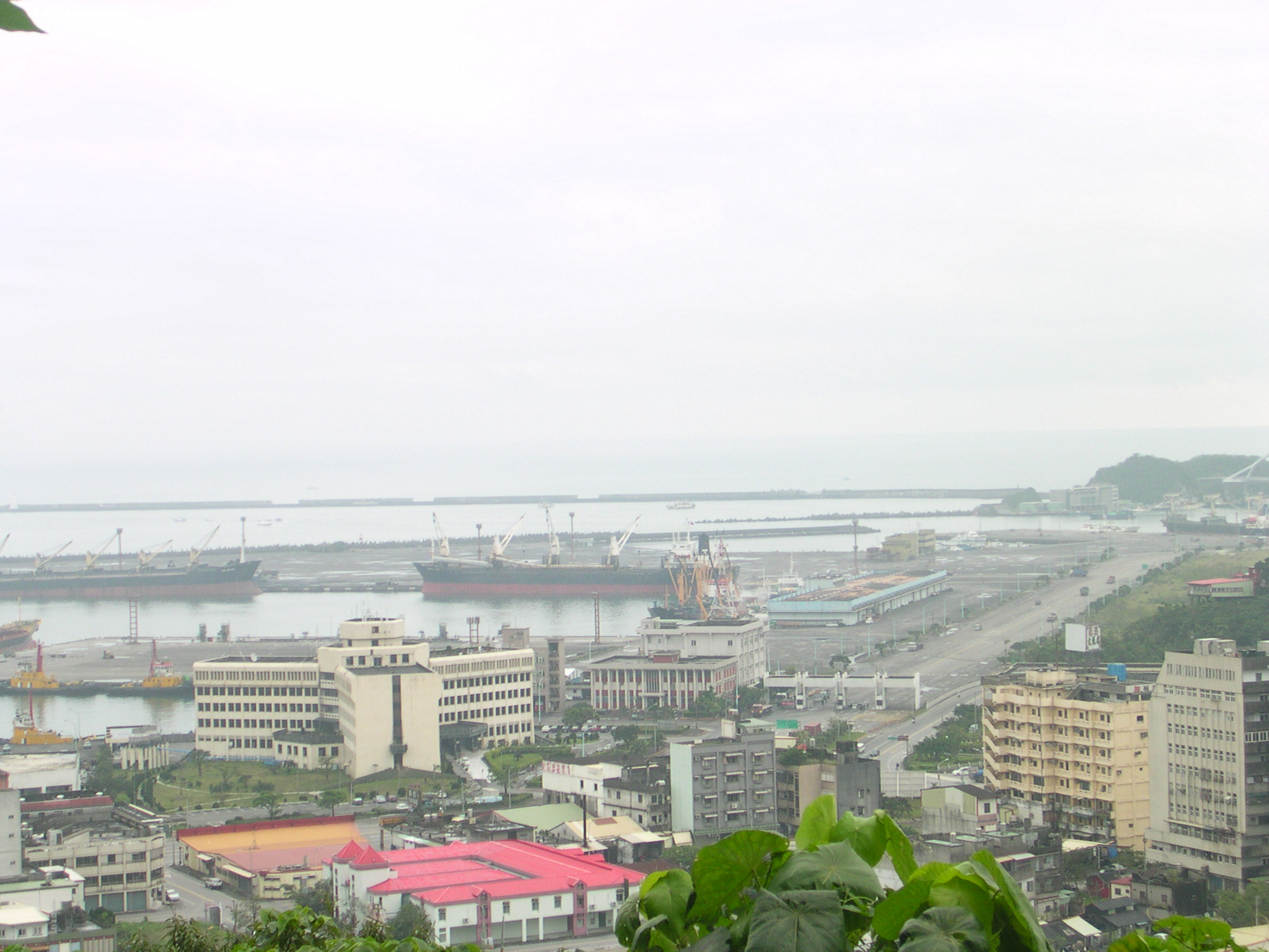 Su'ao Port (蘇澳港), Yilan County, Taiwan.